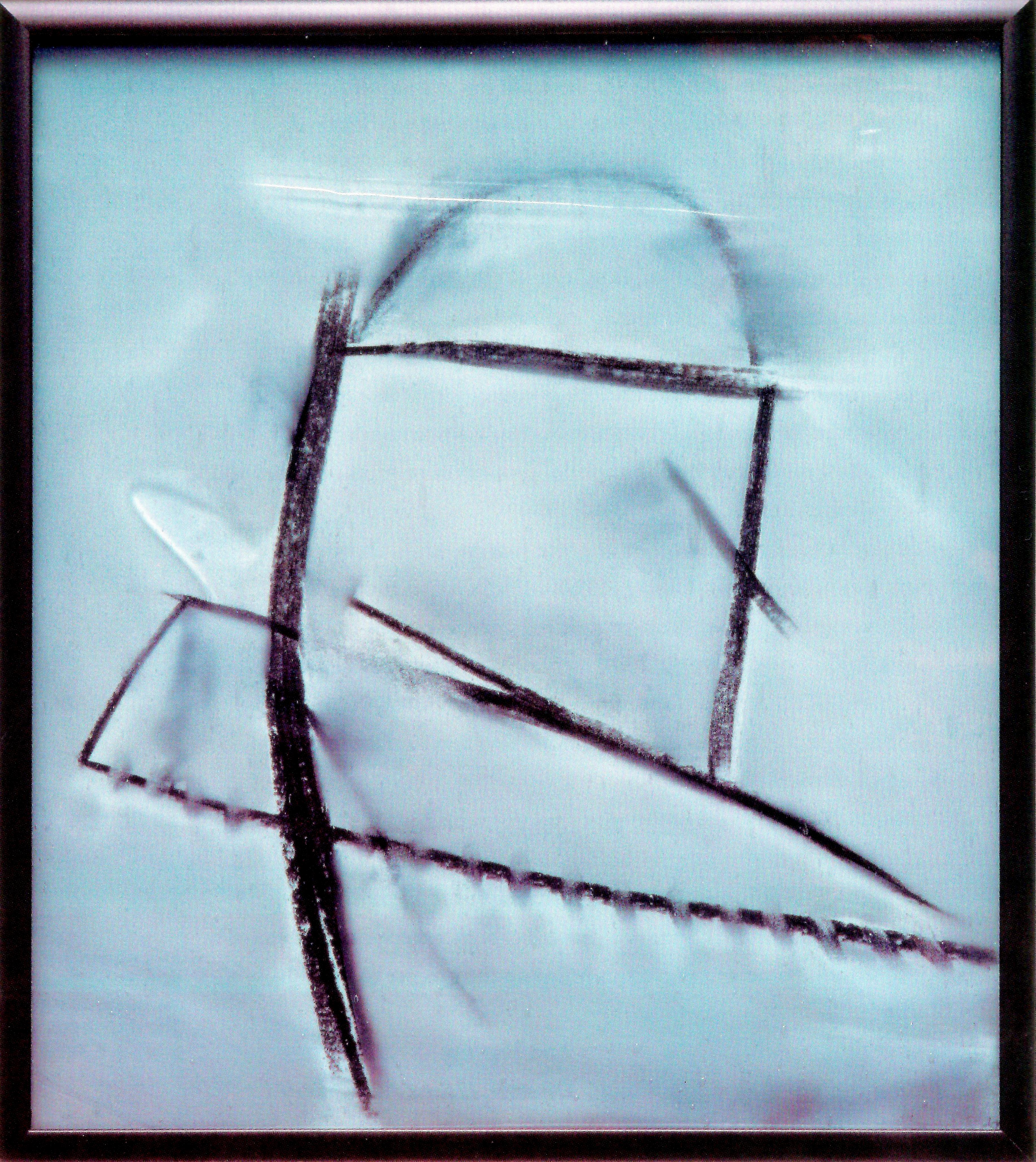 "Palimpsest III" — by Robert Kehlmann (1992). Sandblasted hand-blown glass, charcoal on board, 9.5" x 8.5". Private Collection, Walnut Creek, CA.